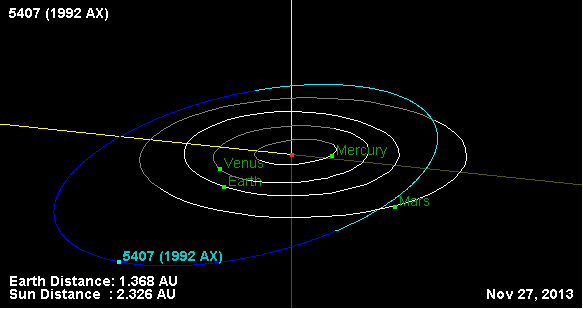 This diagram illustrates the orbit of the binary asteroid 1992 AX.